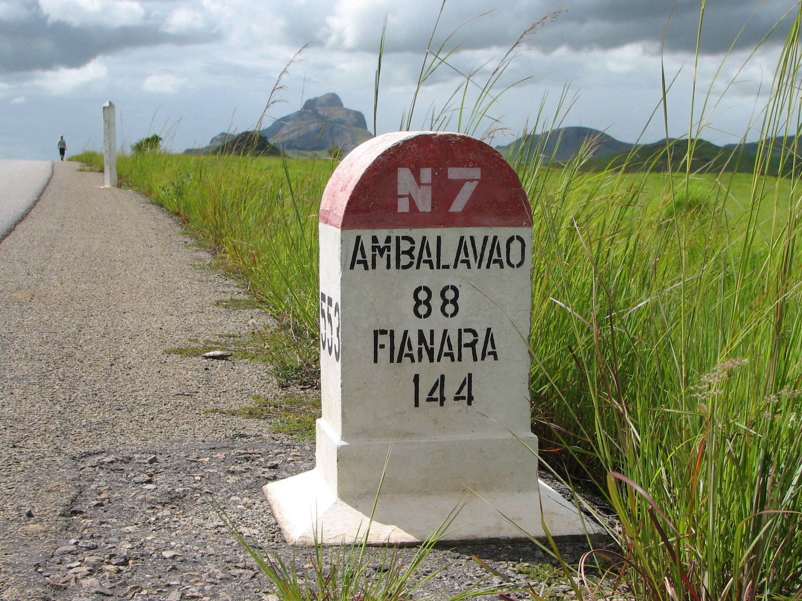 Milestone in Madagascar